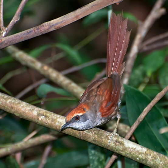 A Rufous-capped Spinetail in Piraju, São Paulo, Brazil.